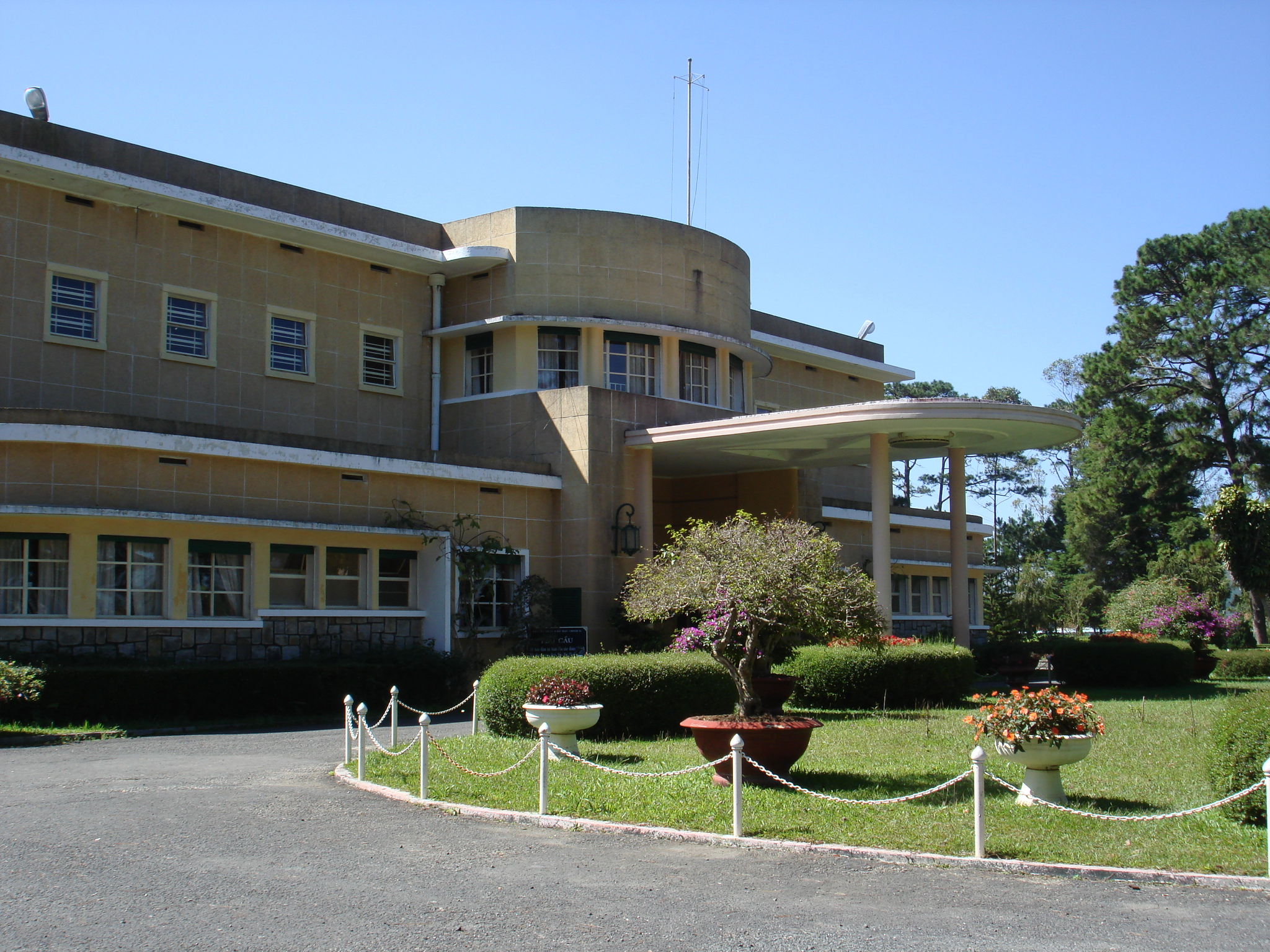 Bao Dai's Summer Palace